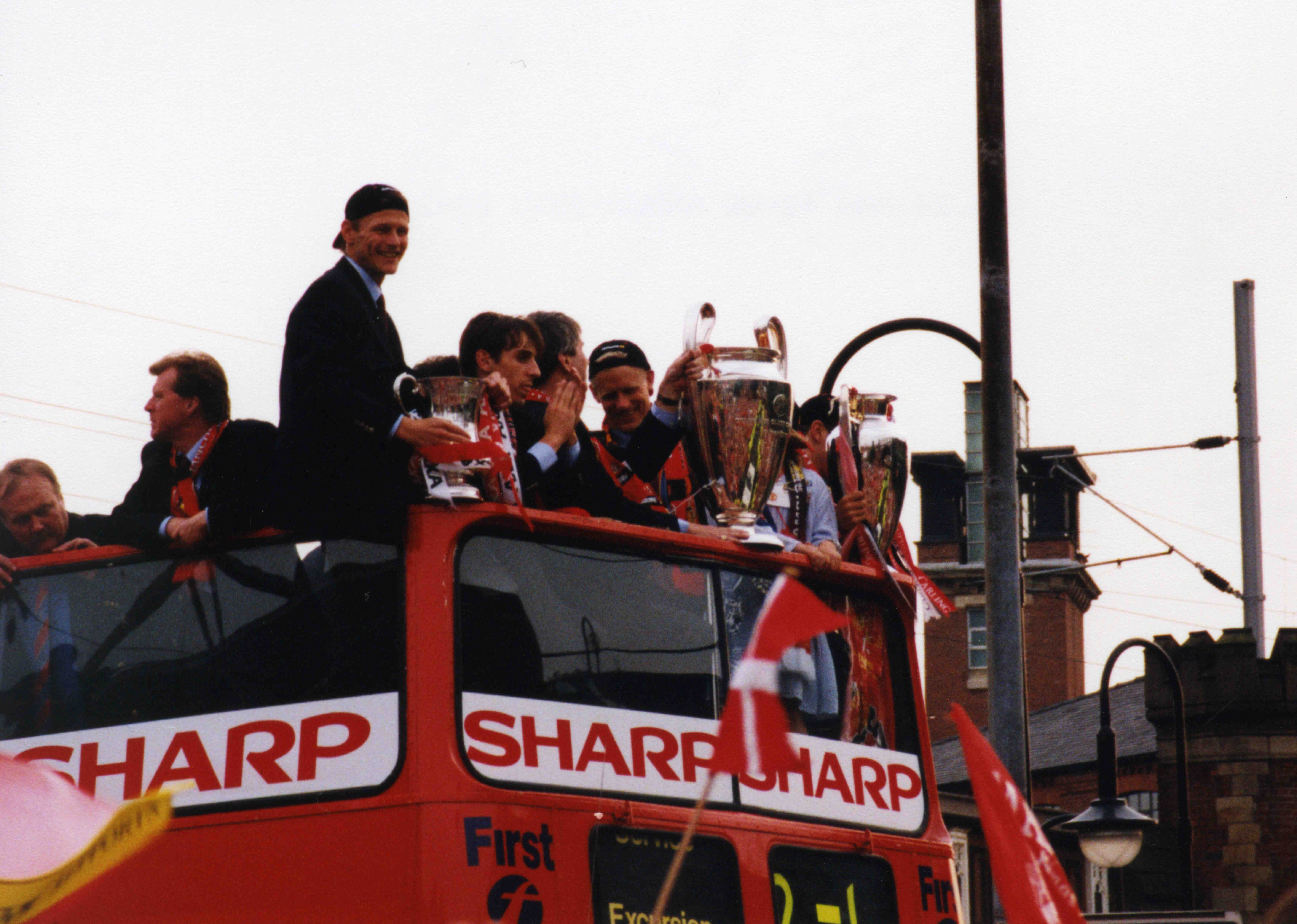 Manchester United's players parade the FA Premier League, FA Cup and UEFA Champions League trophies on an open-top bus down Deansgate, Manchester, in May 1999.